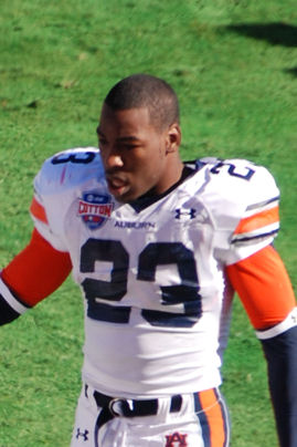 Kenny Irons, American football running back formerly of the Auburn University Tigers, during the 2007 Cotton Bowl